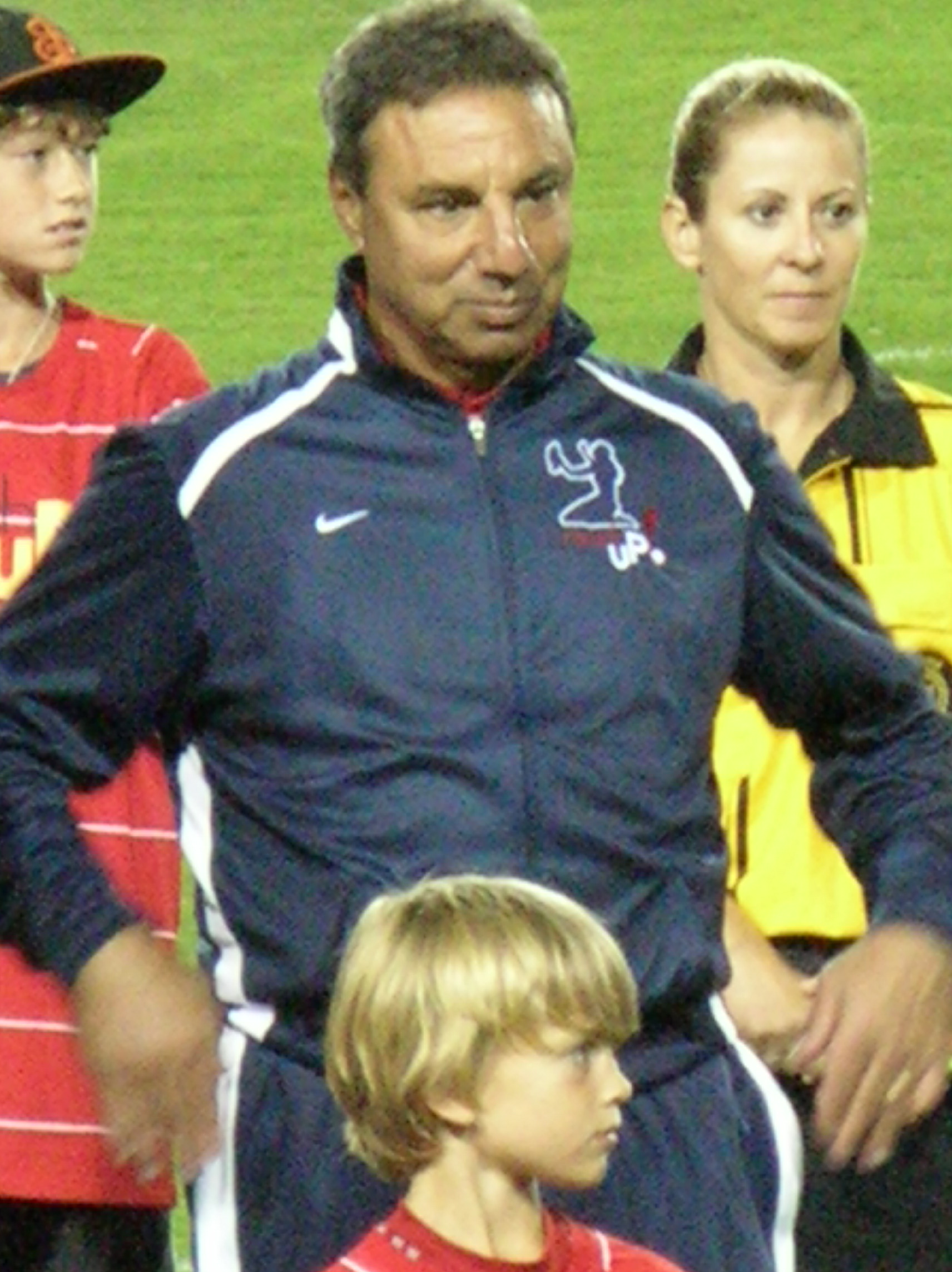 Soccer coach Tony DiCicco (center) at Brandi Chastain's Testimonial Game, a celebrity exhibition soccer game at Buck Shaw Stadium in Santa Clara, California, that honored Chastain's soccer career, celebrated her retirement, and the launching of her ReachuP! Foundation.